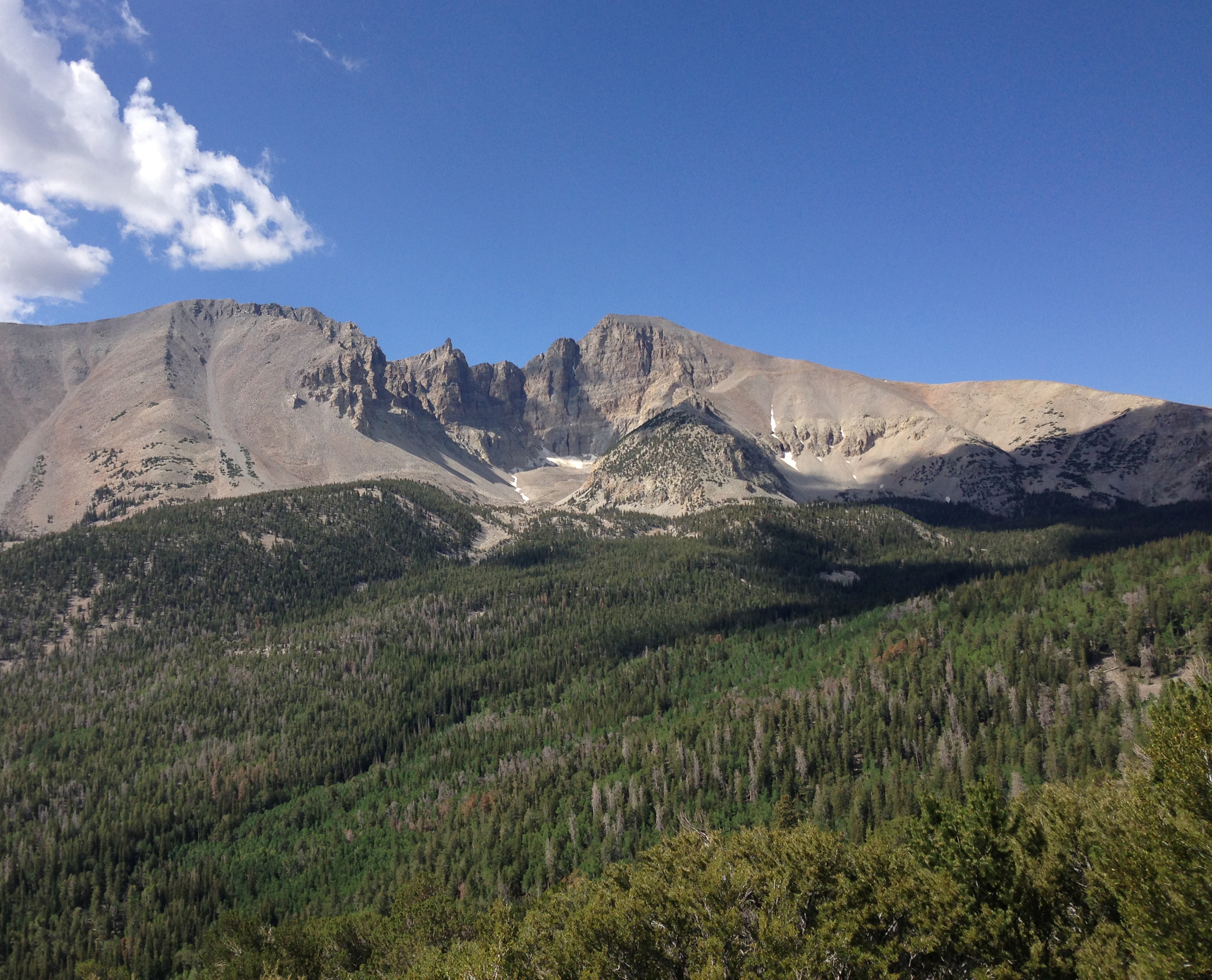 Wheeler Peak, Nevada viewed from Wheeler Peak Scenic Drive in Great Basin National Park